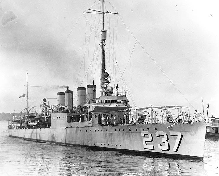 The U.S. Navy destroyer USS McFarland (DD-237) leaving the Philadelphia Naval Shipyard, Pennsylvania (USA), on 4 August 1932, after being recommissioned.